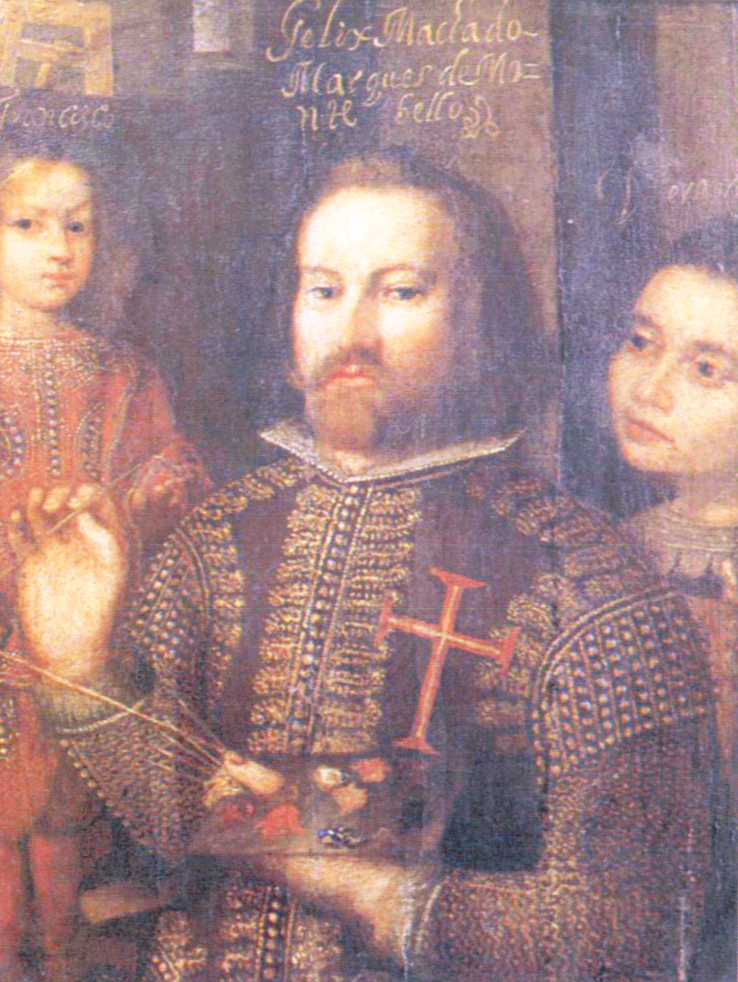 Dom Félix Machado da Silva Castro e Vasconcelos (1595-1662), 1st Count ofAmares, 6th Lord of Entre Homem e Cávado, and 1st Marquis of Montebello.